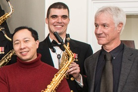 Winchester Va (Jan. 15, 2016) Guest soloists and composer John Anthony Lennon join the Navy Band Sax section for the opening concert at the 38th annual International Saxophone Symposium. The free two day event is held each January at the Shenandoah University in Winchester, Virginia and serves hundreds of saxophone students and professionals in addition to the concert going public. (U.S. Navy photo by Musician 1st Class David Aspinwall)